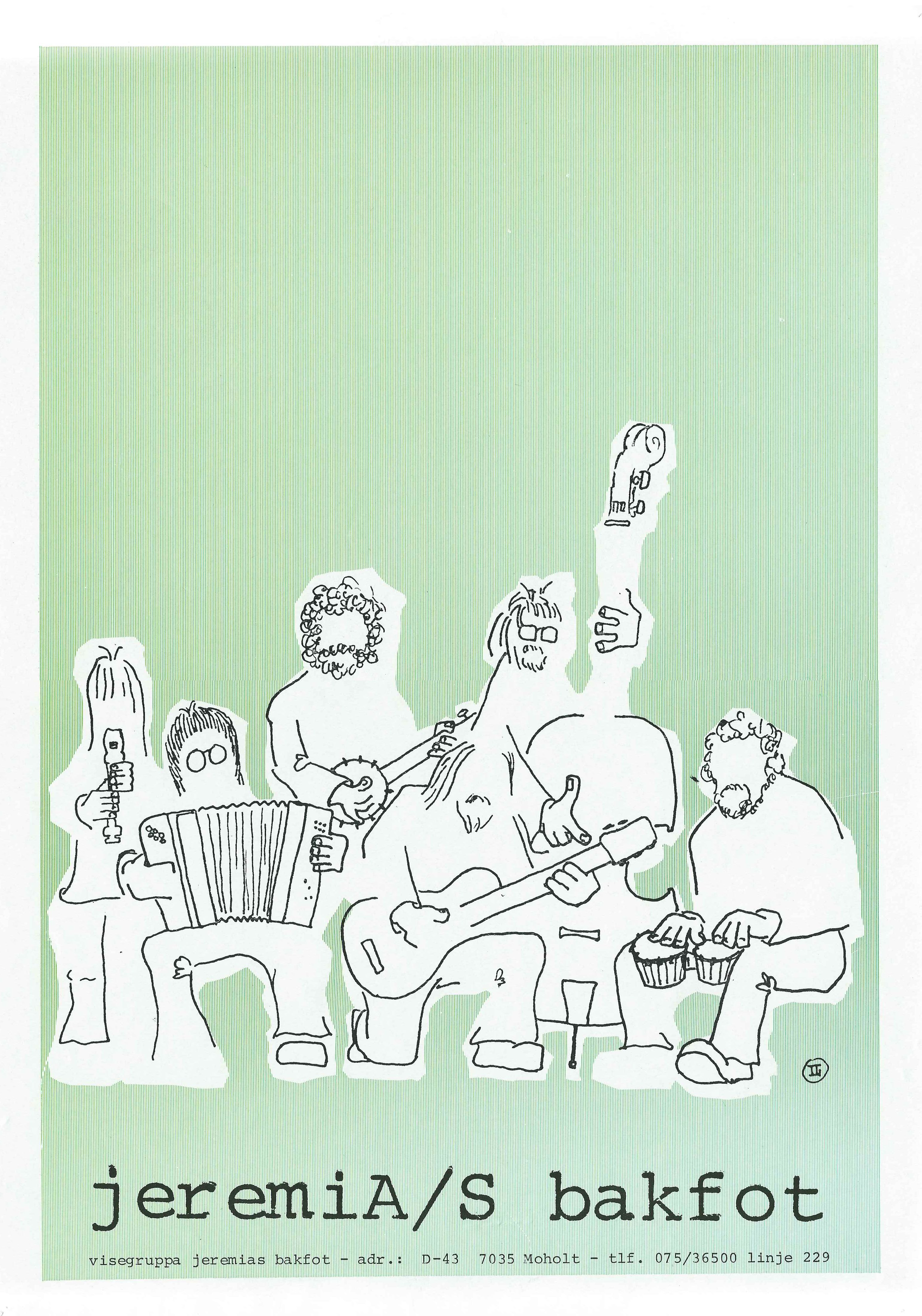 The folk song group JeremiA/S Bakfot (1976-1980): Marit Garberg, Randi Vik, Ola Dimmen, Jan-Erik Pettersen, Asbjørn Solheim og Idar Lind. (Poster by Idar Lind.)